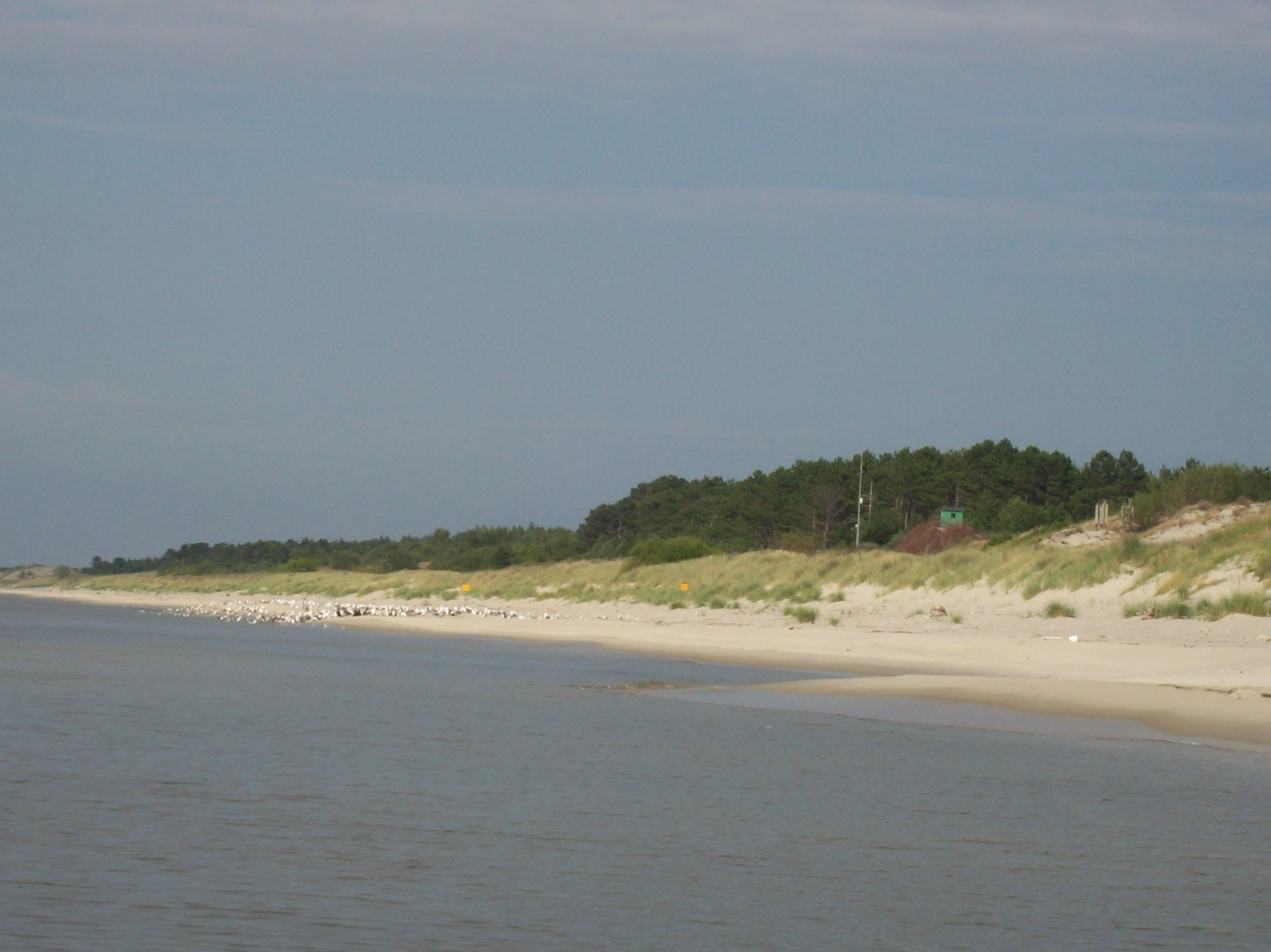 Vistula spit - Poland-Russia state border